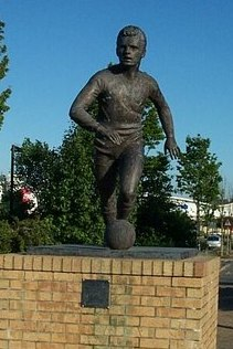 A tribute to David Cooper, 1956 - 1995 The plaque reads "This statue was erected by South Lanarkshire Council as a tribute to football legend David Cooper 1974 - 1977 Clydebank FC 1977 - 1989 Glasgow Rangers FC 1989 - 1993 Motherwell FC 22 full international caps 3 Scottish League Championship Medals 4 Scottish Cup Winner Medals 7 Scottish League Cup Winner Medals" The statue was unveiled on 18th March 1999